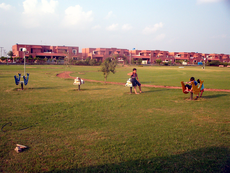 A children's park in Valencia